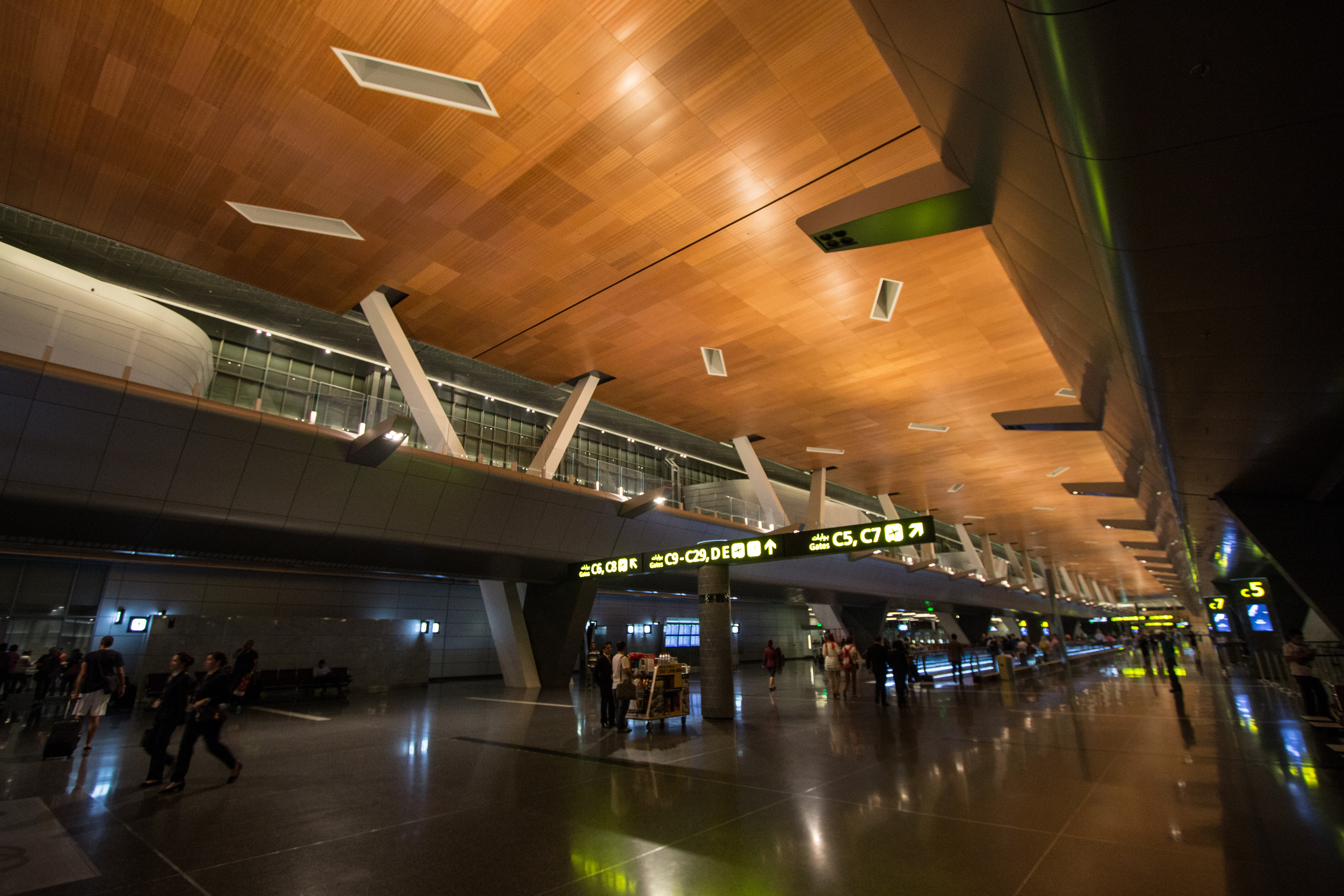 Hamad International Airport